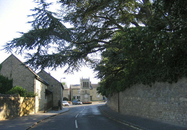 Emberton. Located just off the A509, near Olney, Emberton has a mixture of old limestone and red brick houses and cobble. In the centre of the photograph is the 19th-century stone clock tower which stands on the corner of the High Street and Olney Road.